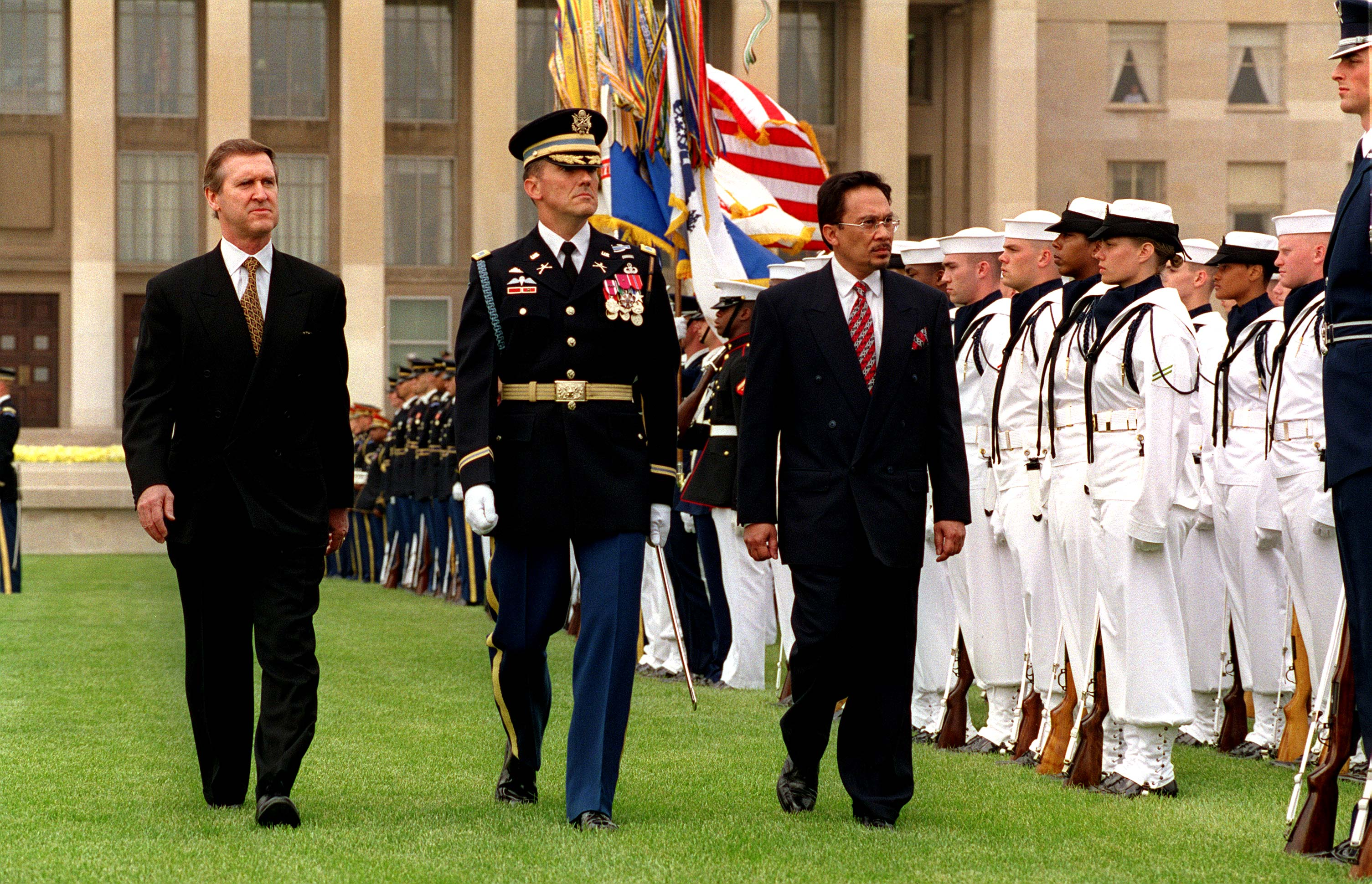 Col. Gregory Gardner (center), U.S. Army, Commander, 3rd U.S. Infantry (Old Guard) escorts U.S. Secretary of Defense William S. Cohen (left) and Malaysian Deputy Prime Minister Anwar bin Ibrahim (right) as they inspect the troops during a armed forces full honor arrival ceremony welcoming Ibrahim to the Pentagon.